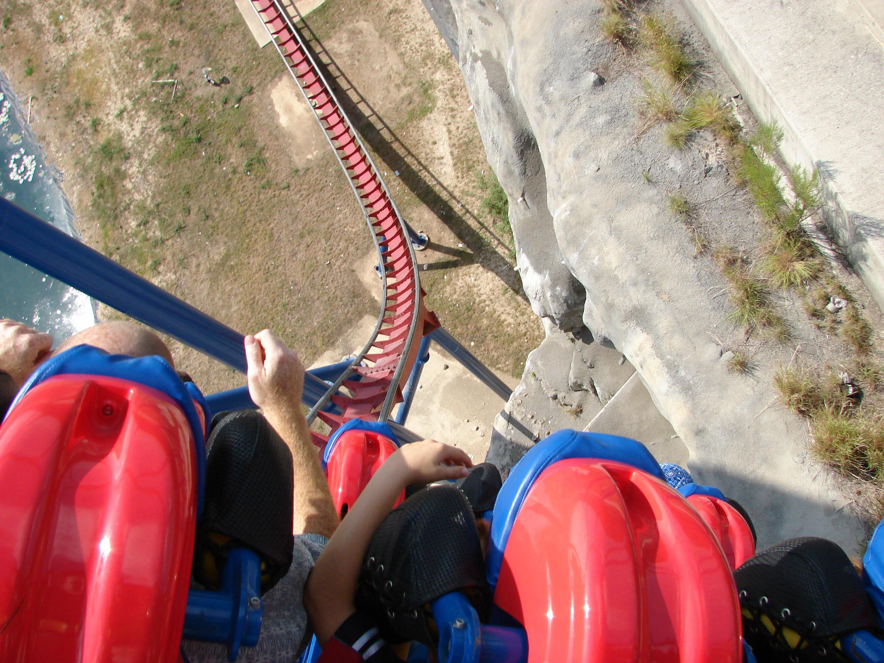 Superman: Krypton Coaster Picture taken by me in July, 2006